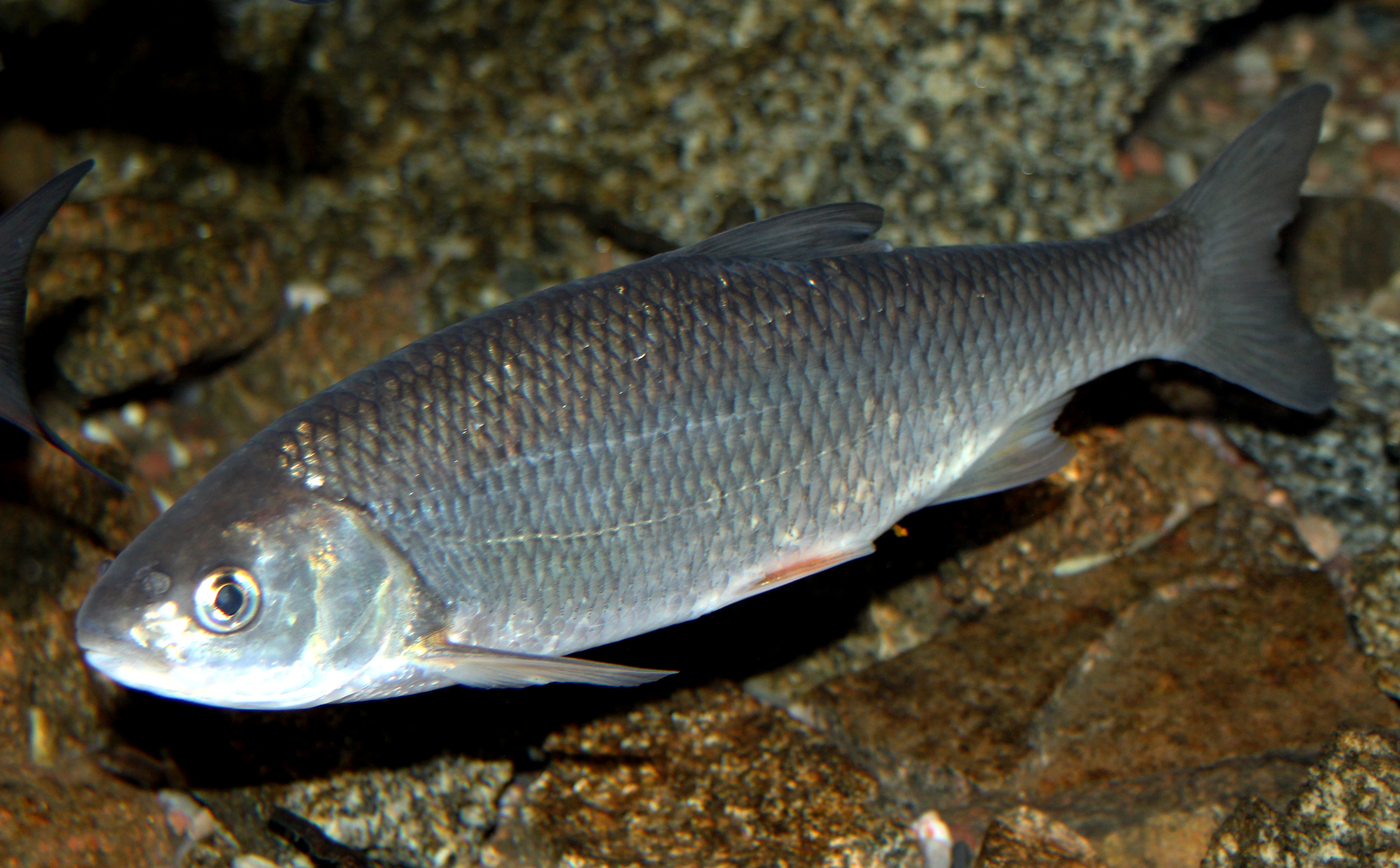 Fish asp on exhibition Subaqueous Vltava, Prague 2011, Czech Republic